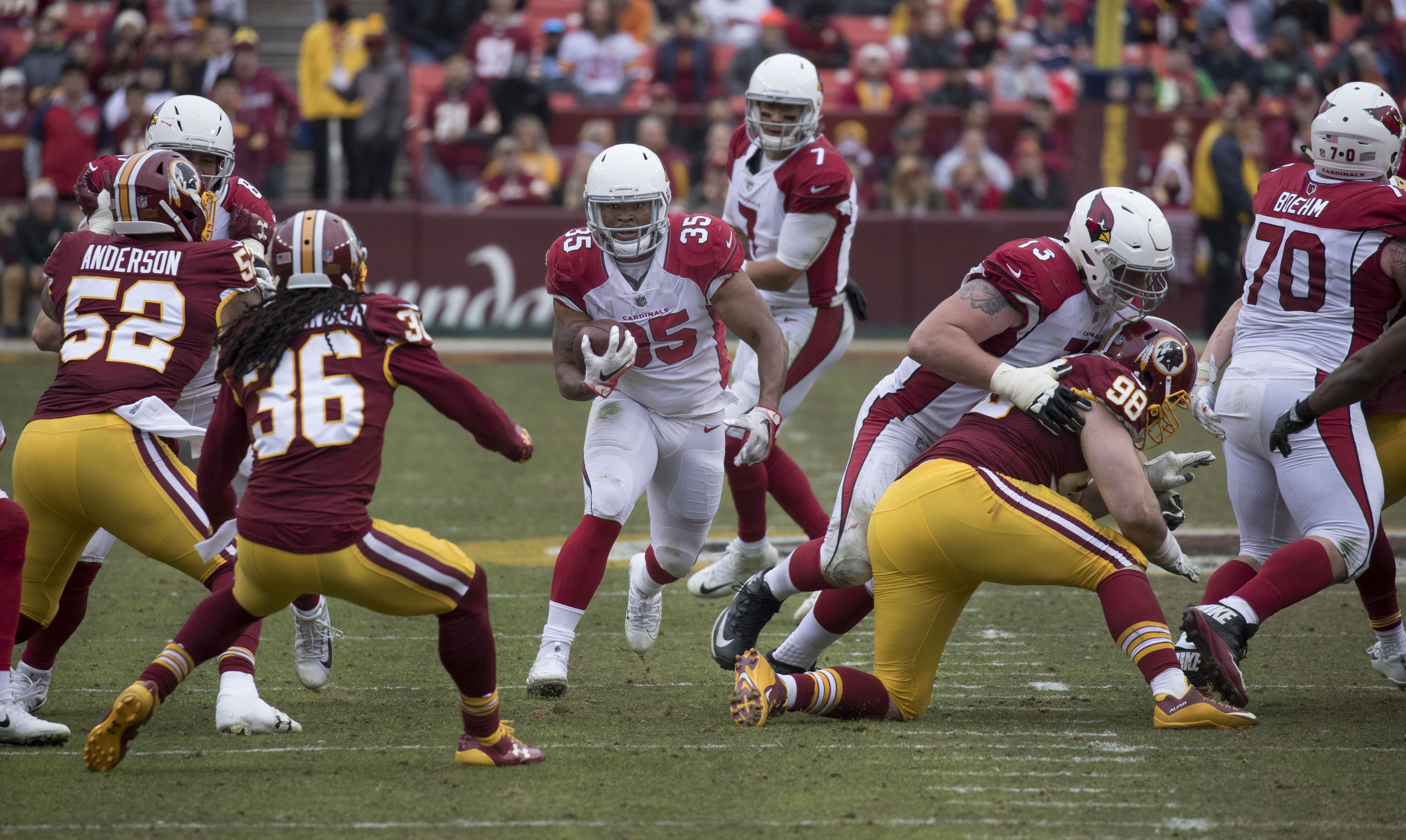 Cardinals at Redskins 12/17/17